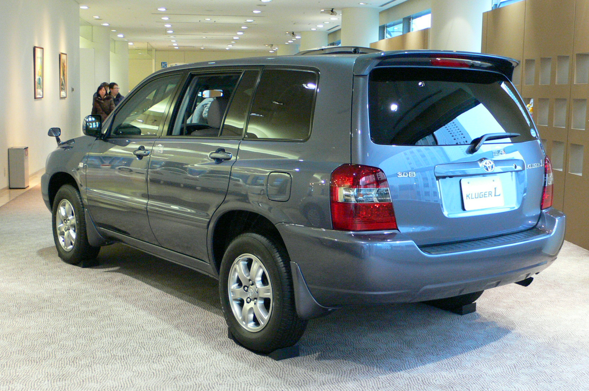 2003 Toyota Kluger taken in Showroom of Toyota-AMLUX.